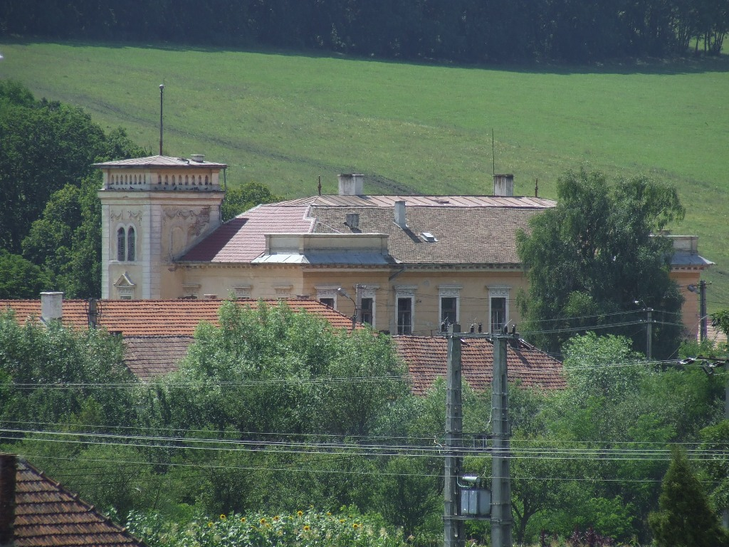 Banffy Castle in Borşa, Cluj County, Romania